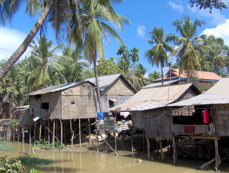 A village in Cambodia